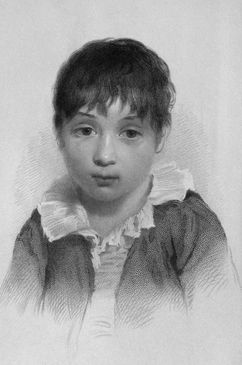 Hartley Coleridge at the age of 10 (1806/07)